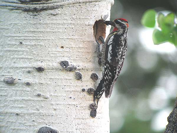 Red-naped Sapsucker (Sphyrapicus nuchalis)